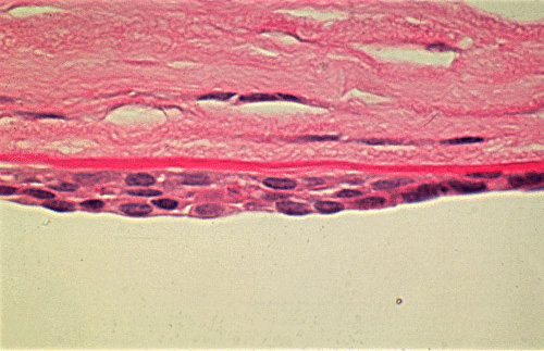 Posterior polymorphous corneal dystrophy. Appearance of the abnormal corneal endothelial cells that have become transformed into stratified squamous epithelium. Periodic acid Schiff stain. (Courtesy Dr. Ralph C. Eagle, Jr). Klintworth Orphanet Journal of Rare Diseases 2009 4:7